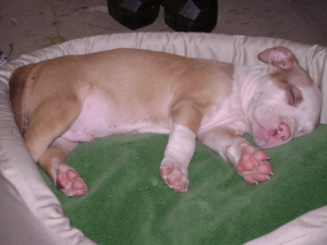 American Pit Bull Terrier asleep in his bed at 3 weeks.